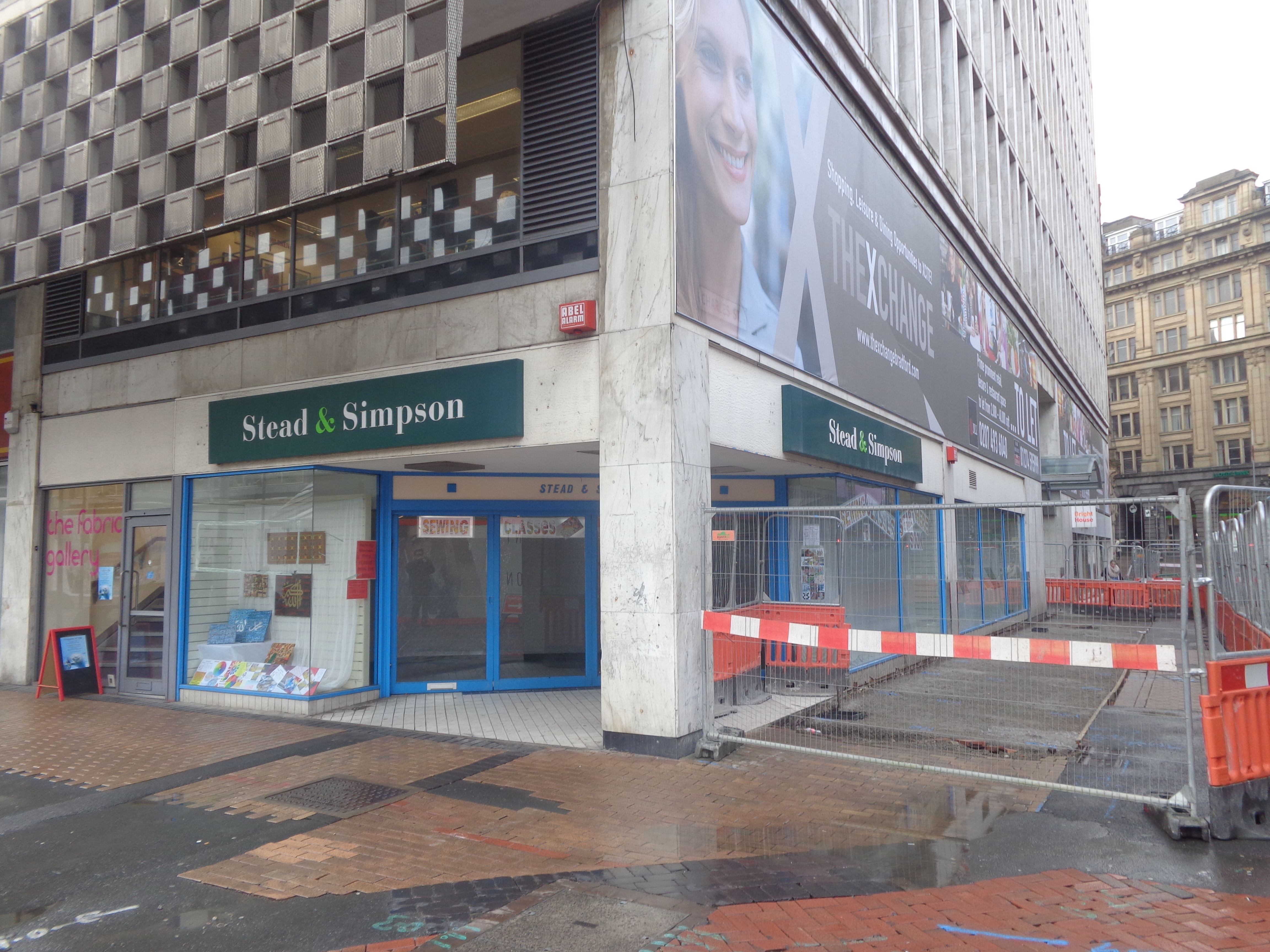 Stead & Simpson on the junction of Broadway and Charles Street, Bradford, West Yorkshire. Taken on the afternoon of Saturday the 8th of November 2014.